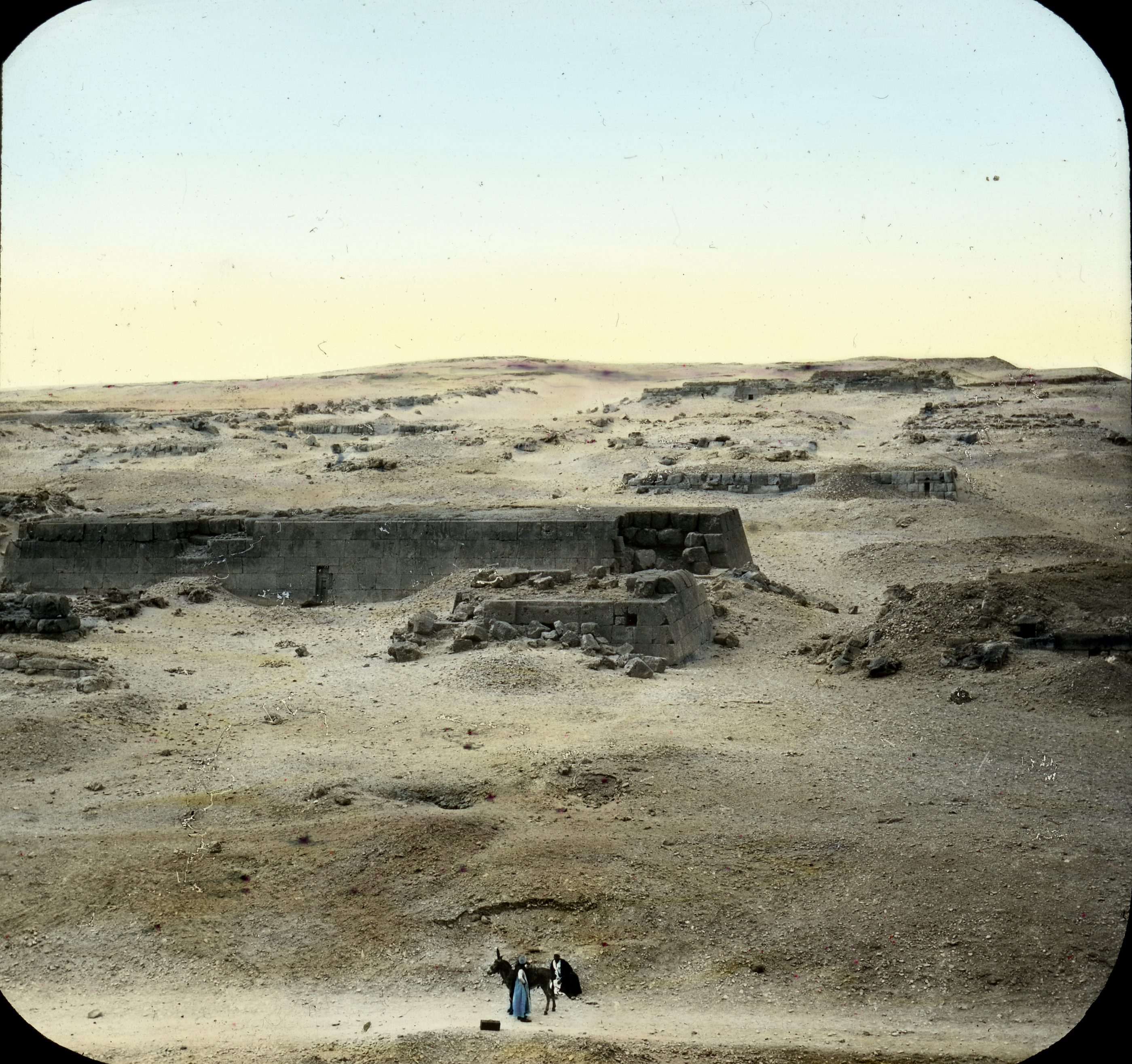 Lantern Slide Collection: Views, Objects: Egypt. Gizeh [selected images]. View 07: Egyptian - Old Kingdom. Plan of Temple of Khephren. Gizeh, 4th Dyn., n.d. Brooklyn Museum Archives (S10.08 Gizeh, image 9615).